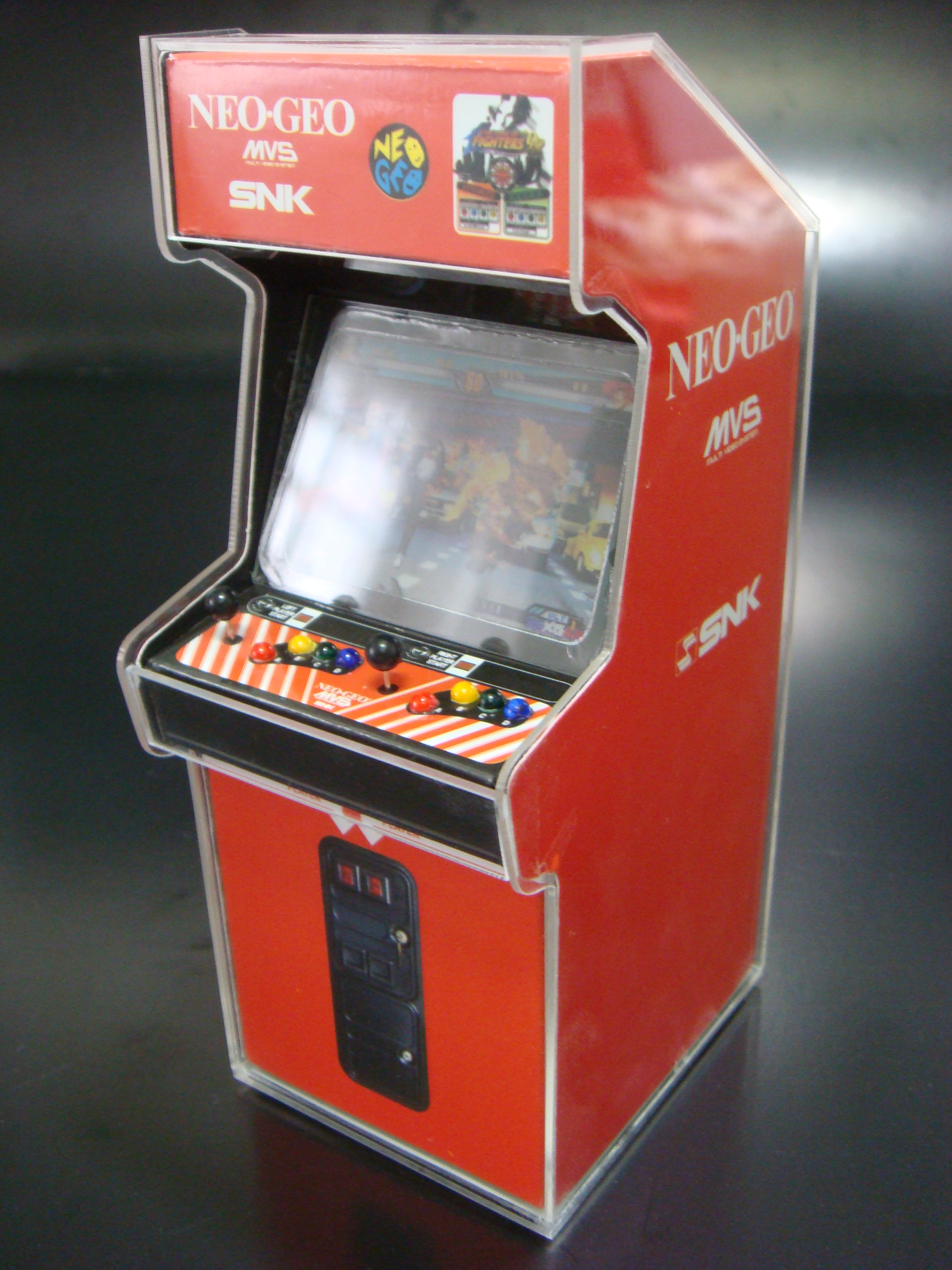 Mini-Arcade's! Play Pixel